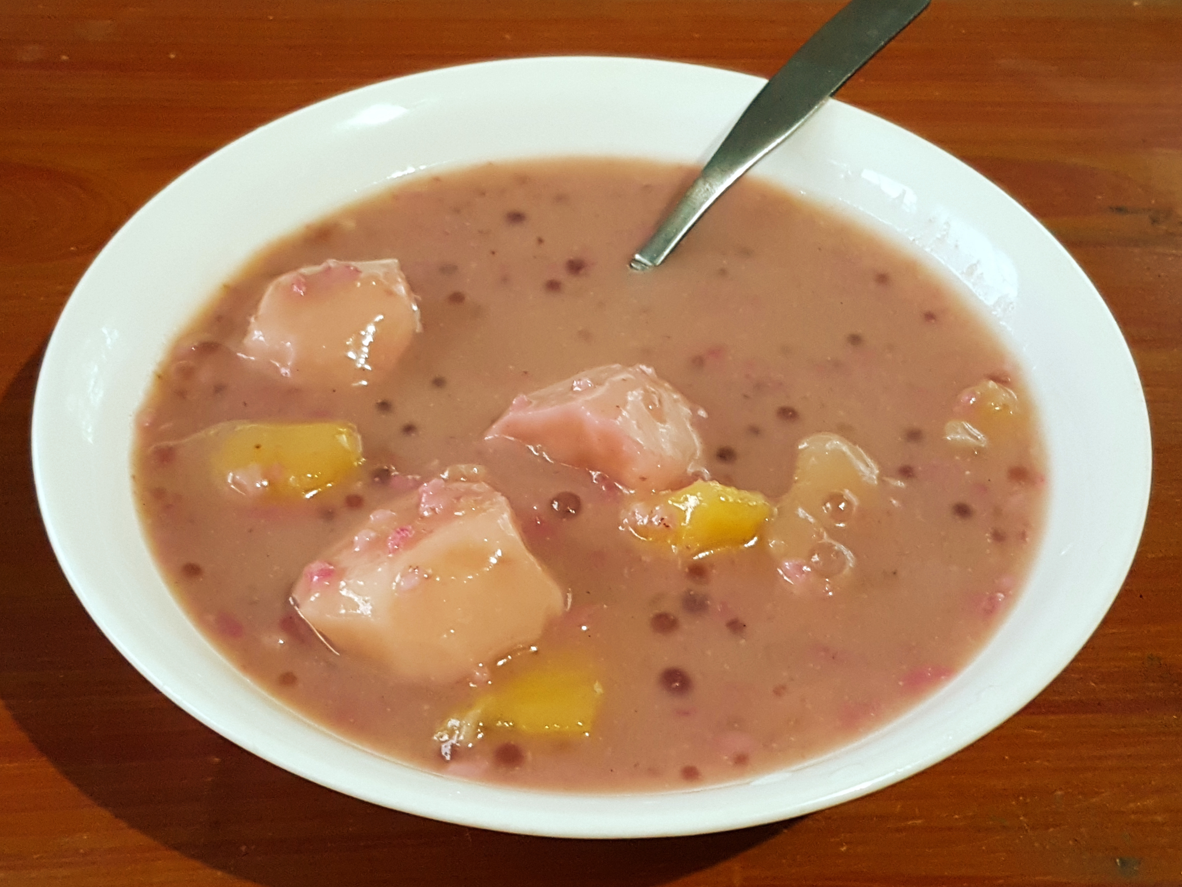 Binignit (Philippines) - Visayan dessert soup with rice, root crops, fruits, and coconut milk